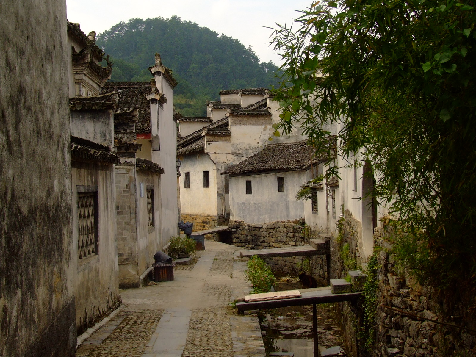 Xidi village in southern Anhui province (Yixian County) in China.